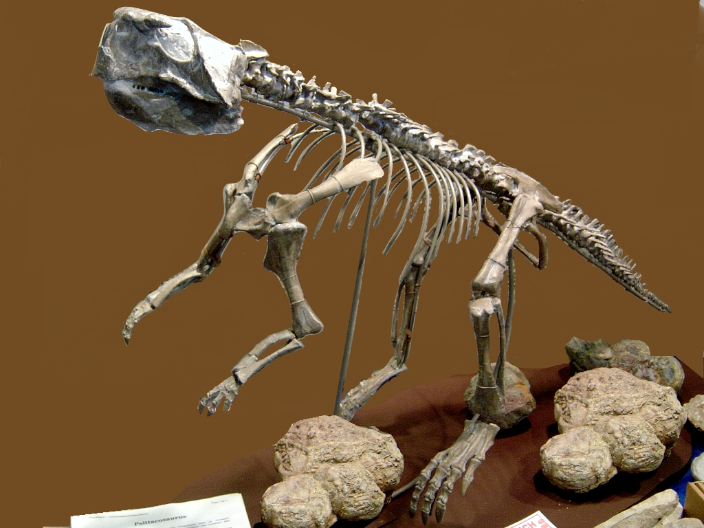 Psittacosaurus bones (my own photo october 2005)